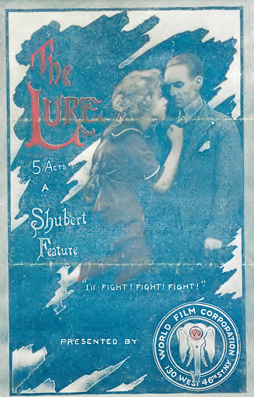 Poster for The Lure (1914 film)